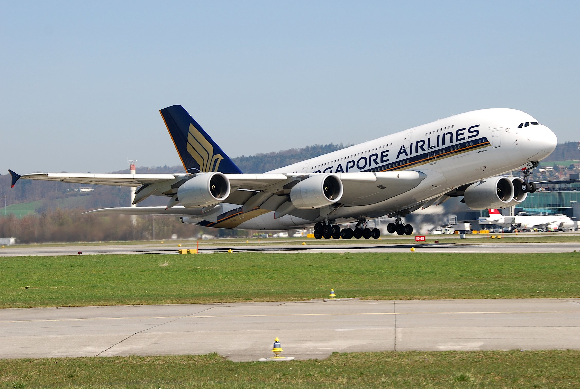 Airbus A380 of Singapore Airlines at Zurich International Airport